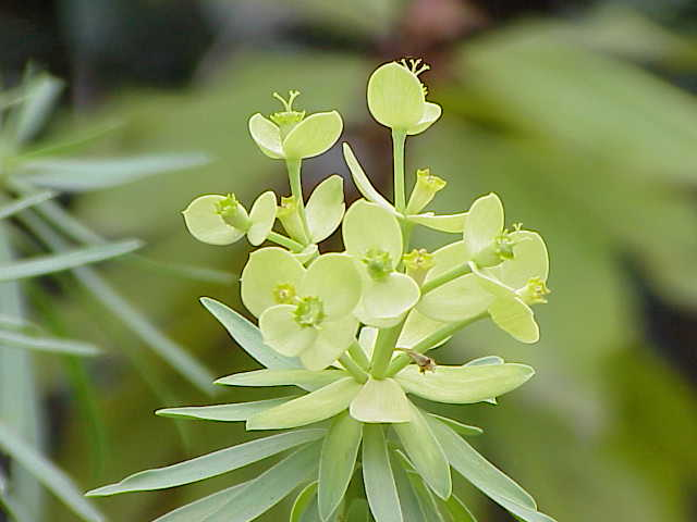 Species: Euphorbia lamarckii Family: Euphorbiaceae Image No. 1